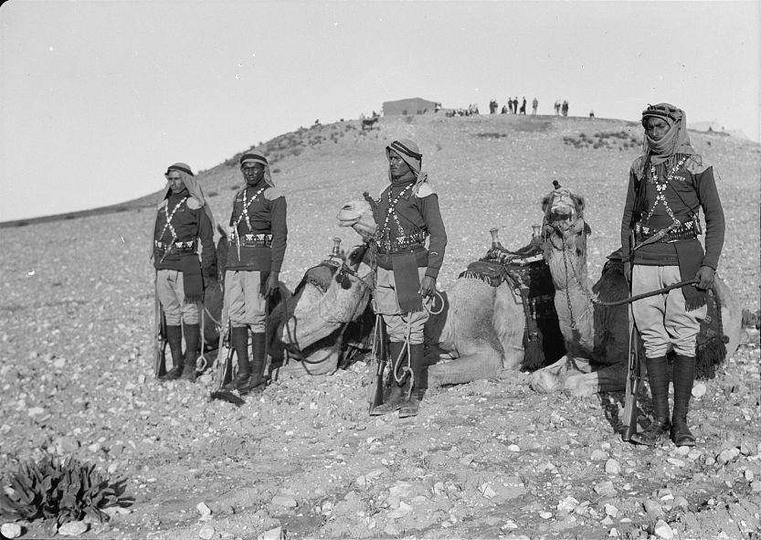 Title: A tribal lunch at cavalry post at Tel-el-Meleiha, 20 miles North of Beersheba, Jan. 18, 1940. Gen[eral] view with men & camels of the camel corps in the foreground Abstract/medium: G. Eric and Edith Matson Photograph Collection Physical description: 1 negative